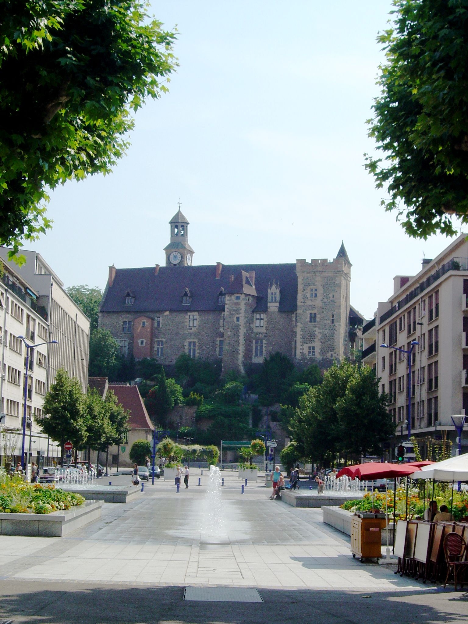 Montluçon (France) I took this photo in July 2006